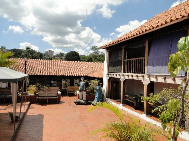 Museo de Petare